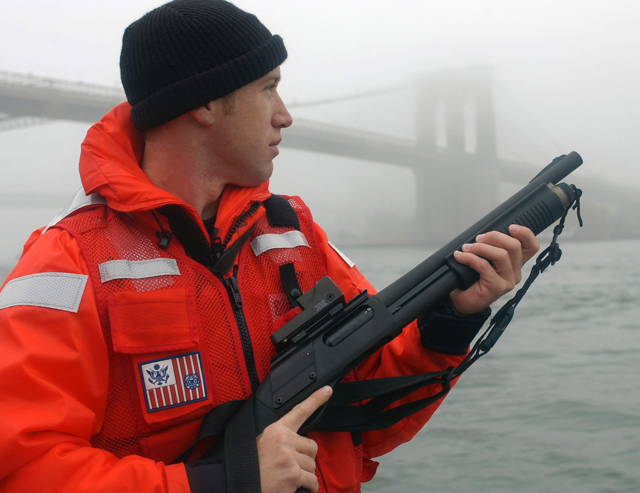 STATEN ISLAND, New York, (Nov 11, 2003)—Coast Guard Petty Officer Michael S. Perraut, of the Maritime Safety and Security Team (MSST) 91106 stands watch over the Brooklyn Bridge Nov. 5, 2003.